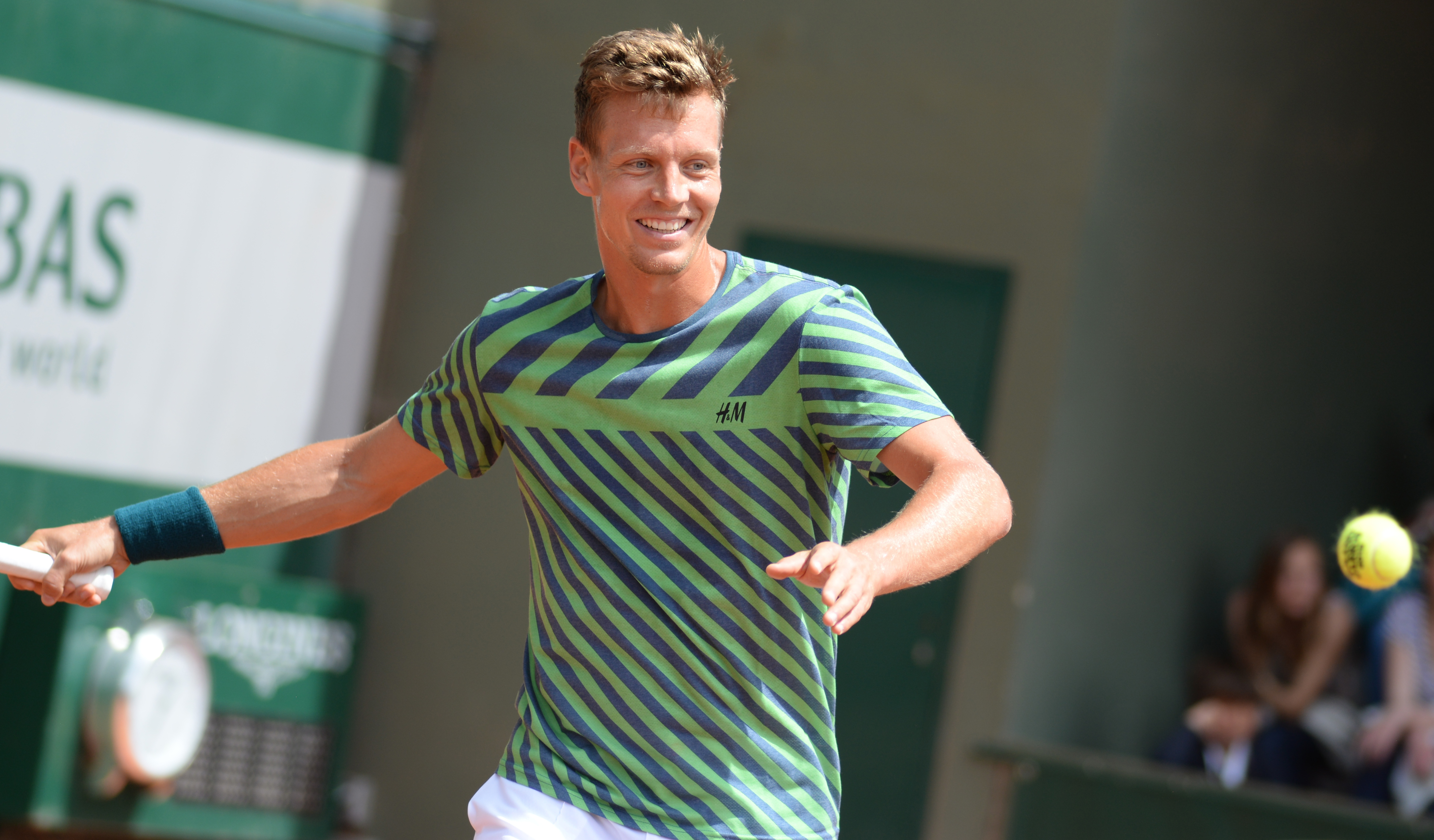 Tomáš Berdych at the 2015 French open